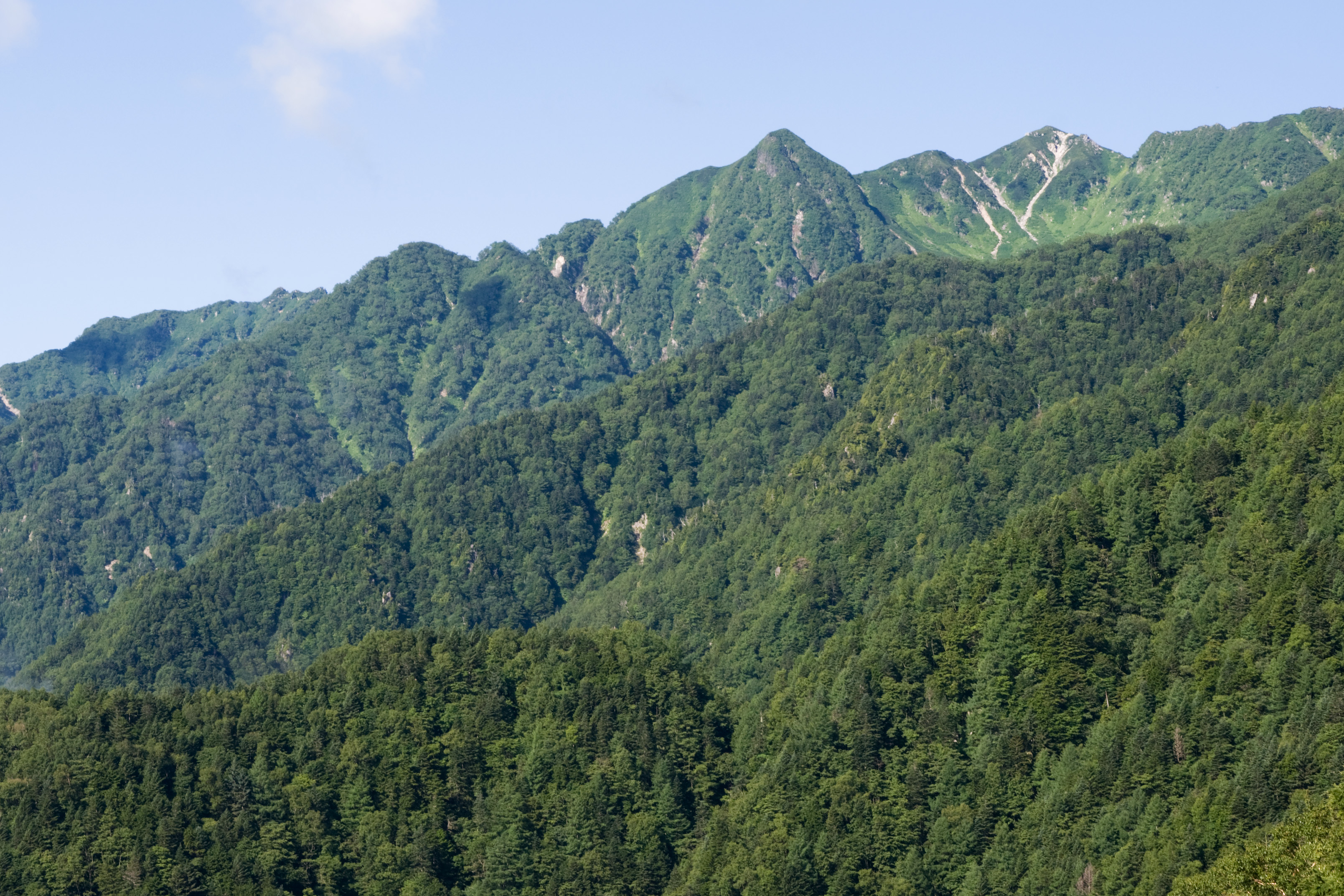 Mt.Tagiridake and Mt.Akanagidake in Mts.Kiso, Japan.